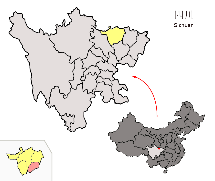 Location of Cangxi County (pink) and Guangyuan Prefecture (yellow) within Sichuan province of China Map drawn in october 2007 using various sources, mainly : Sichuan province administrative regions GIS data: 1:1M, County level, 1990 Sichuan Counties map from